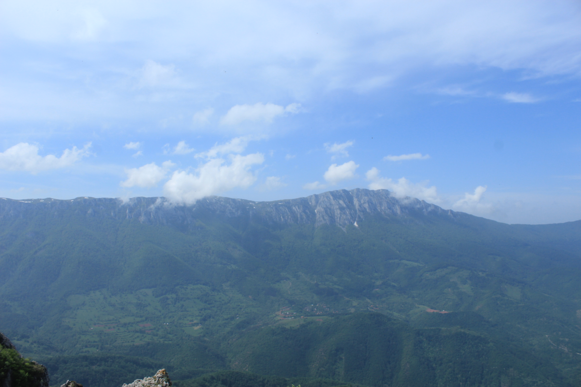 Part of Suva mountain west ridge.